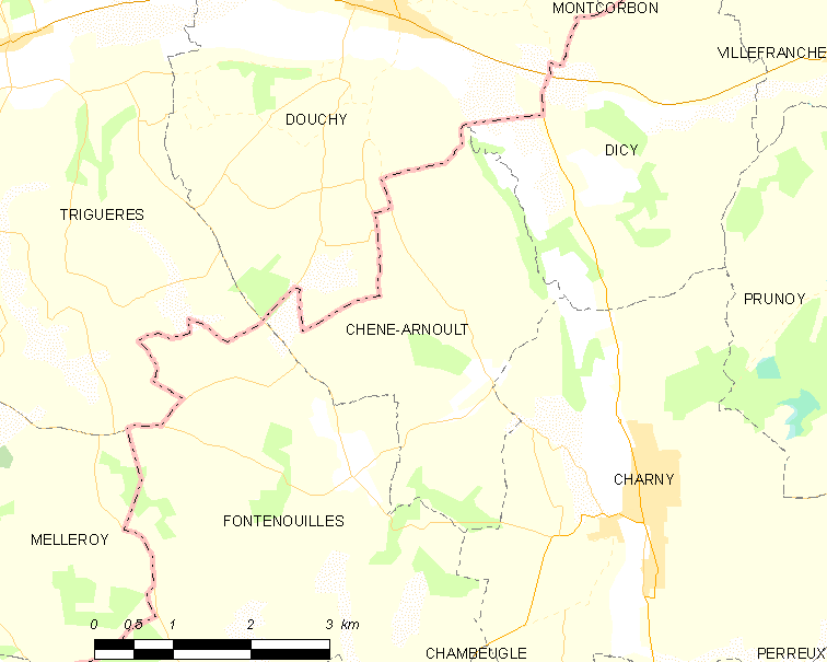 Map of French municipality Chêne-Arnoult